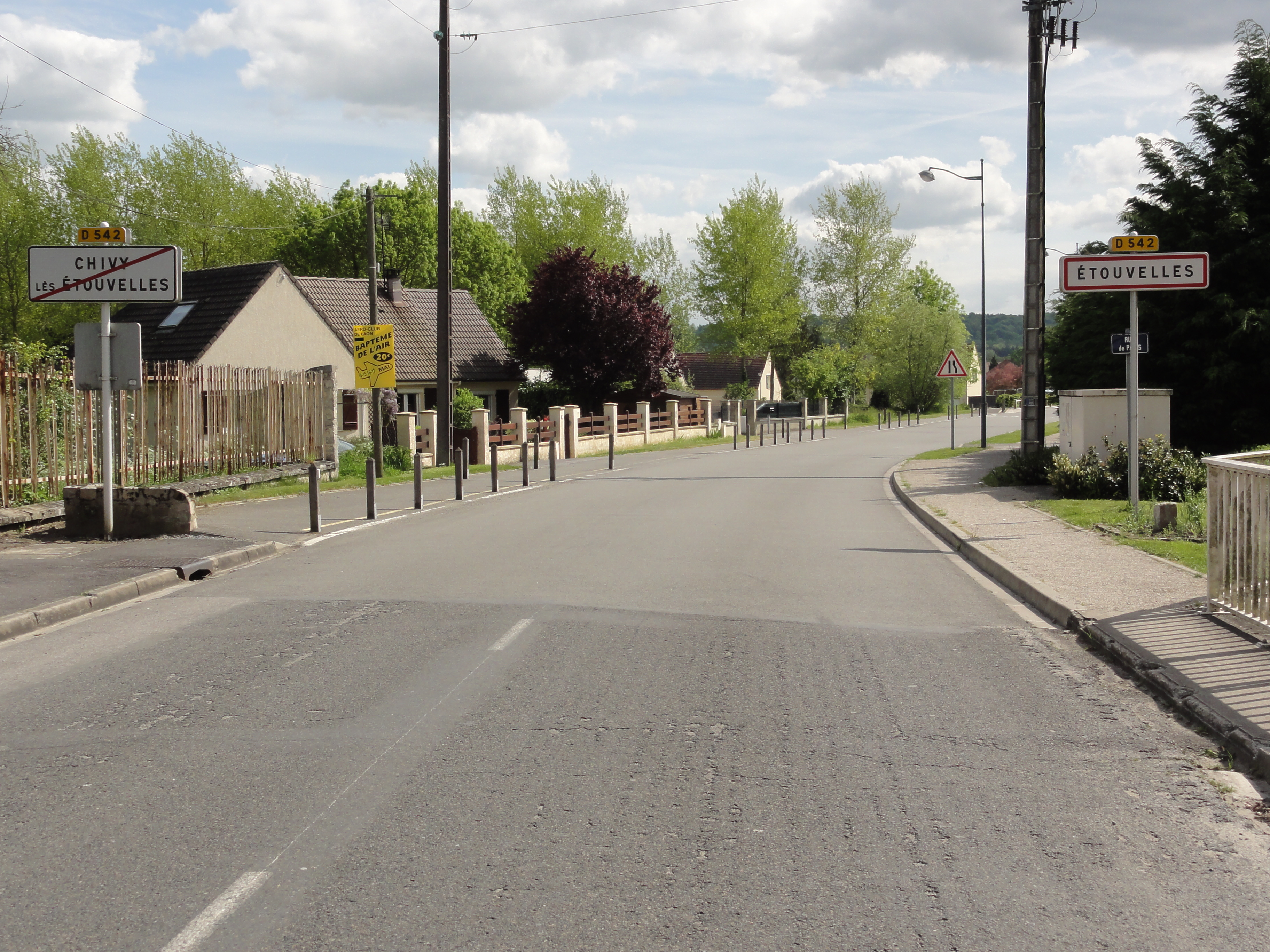 Étouvelles (Aisne) city limit sign